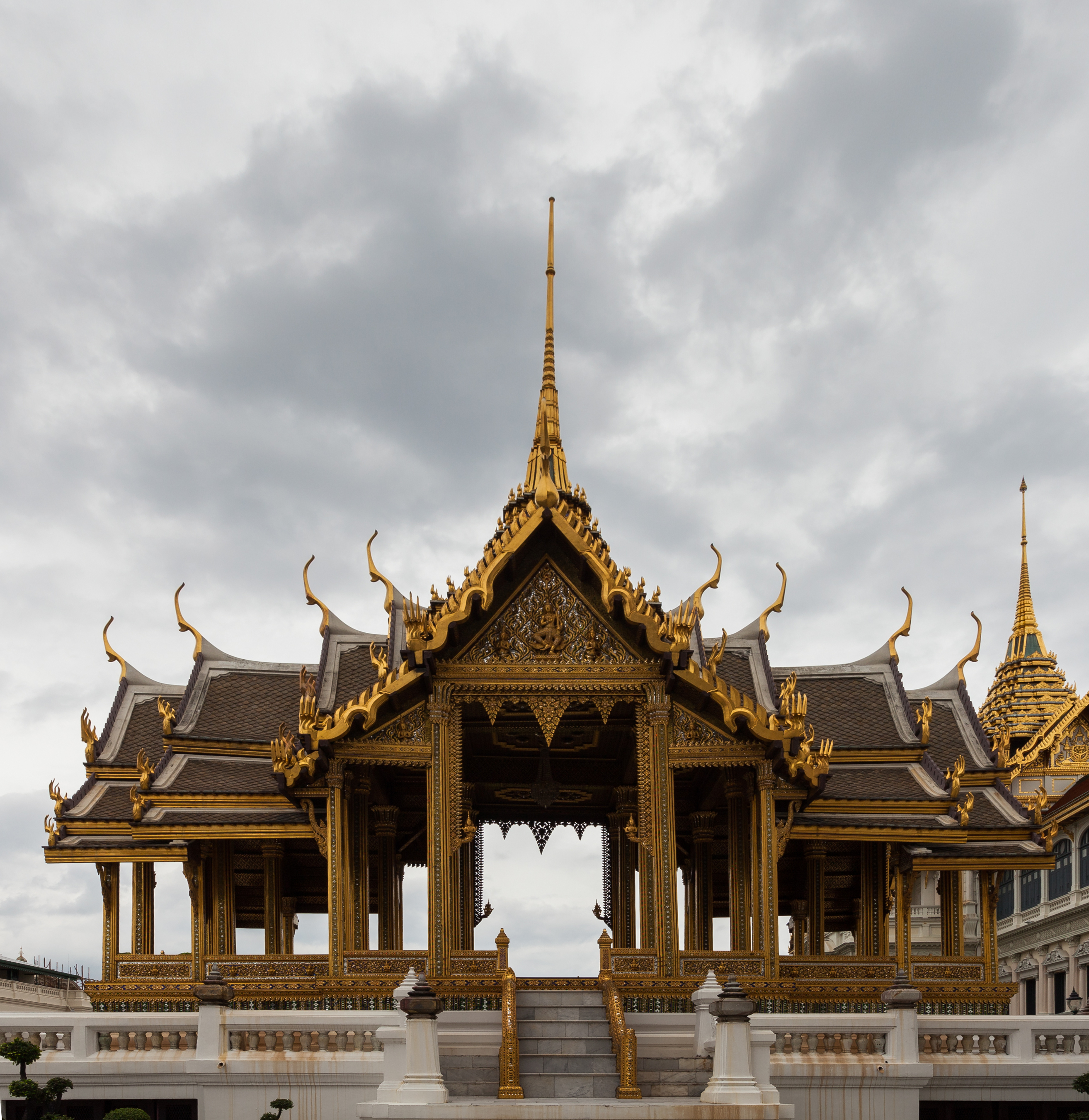 Gradn Palace, Bangkok, Thailand